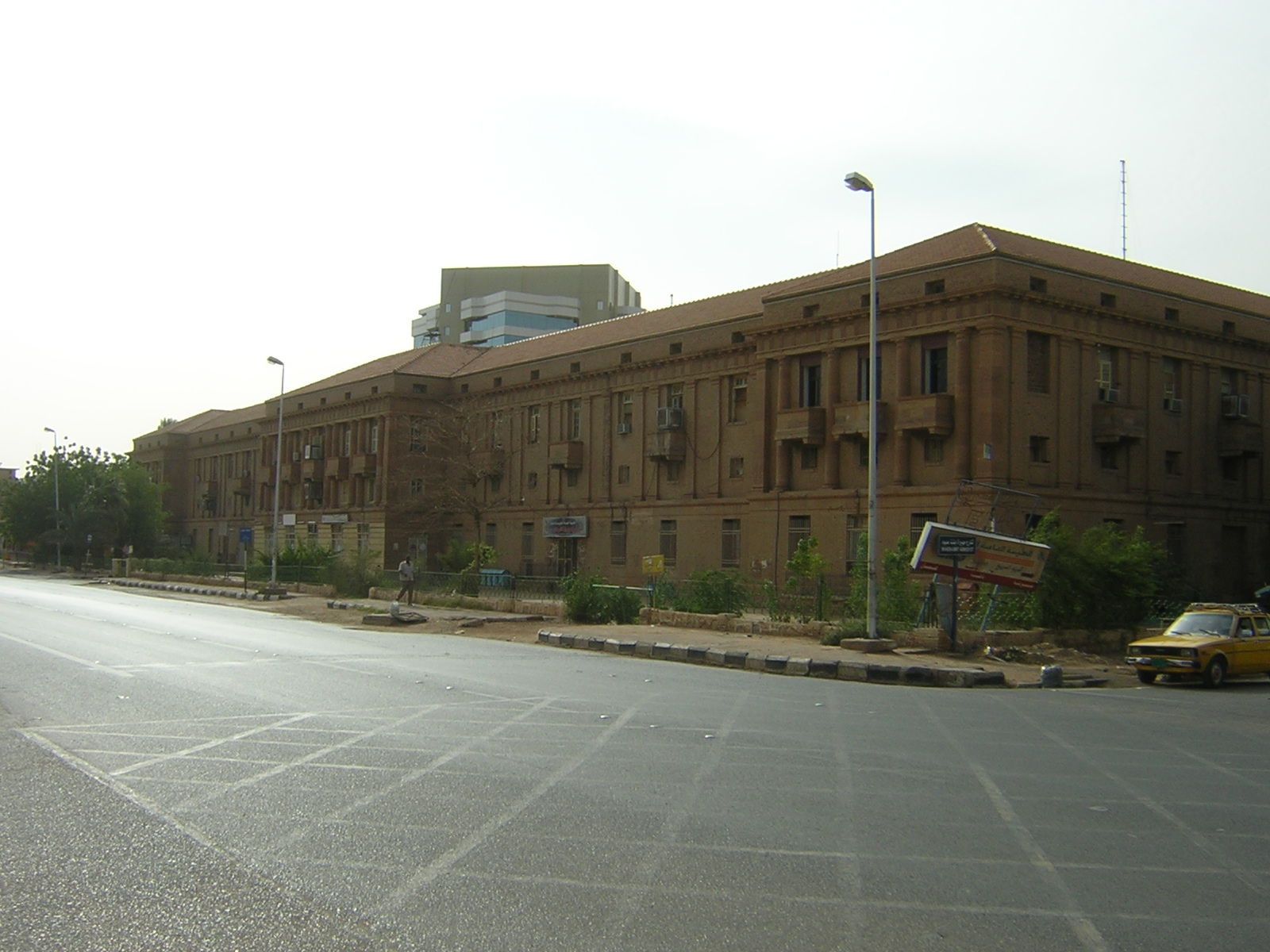 The main post office in Khartoum, Sudan.